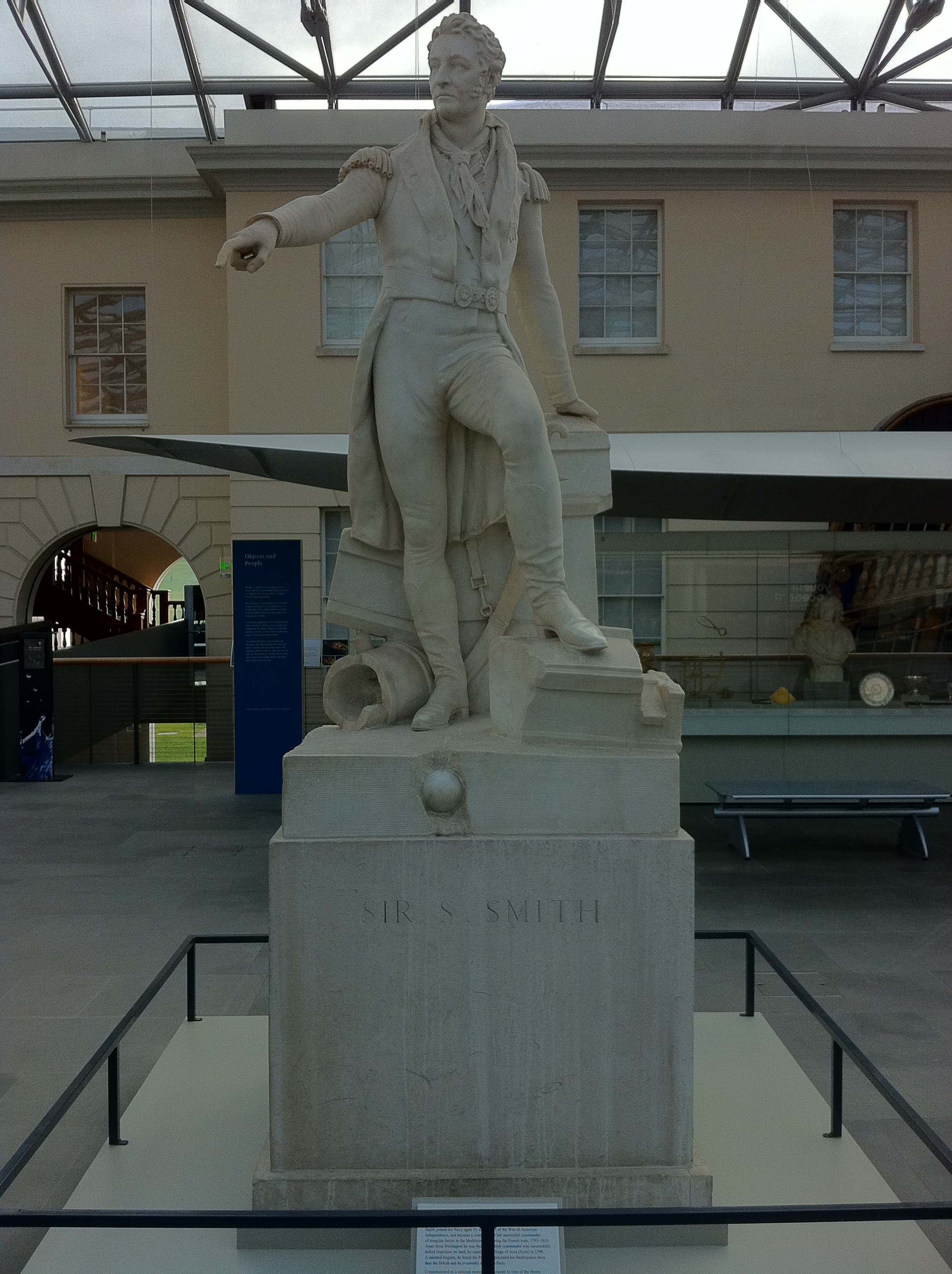 Admiral Sir William Sidney Smith 1764 - 1840, joined the Navy aged 11, at the start of the War of American Independence, and became a controversial but successful commander of irregular forces in the Mediterranean during the French wars, 1793-1815. Apart from Wellington he was the only British Commander who successfully defied Napoleon on land, by repulsing his Siege of Acre (Syria) in 1799. A talented linguist, he found the French appreciated his flamboyance more than the British, and he eventually retired to Paris. Commissioned as a national monument, pursuant to vote of the House of Commons in 1842. SCU0051: Greenwich Hospital Collection